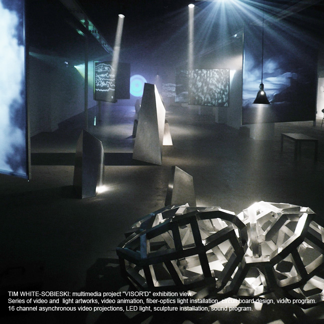 Tim White-Sobieski. Contemporary art multimedia project "VISOR'D" exhibition view. Series of multi-channel video and light artworks, fiber-optics light installation, sculptures, sound program.